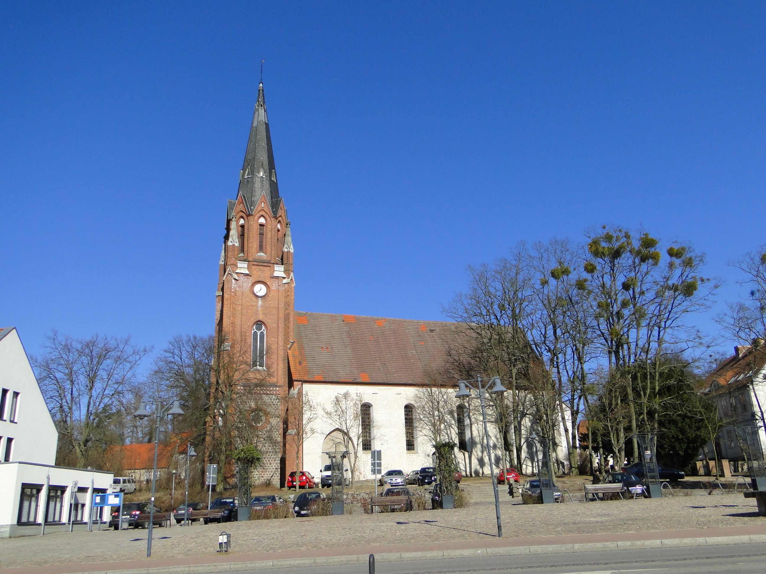 Church in Burg Stargard, district Mecklenburg-Strelitz, Mecklenburg-Vorpommern, Germany